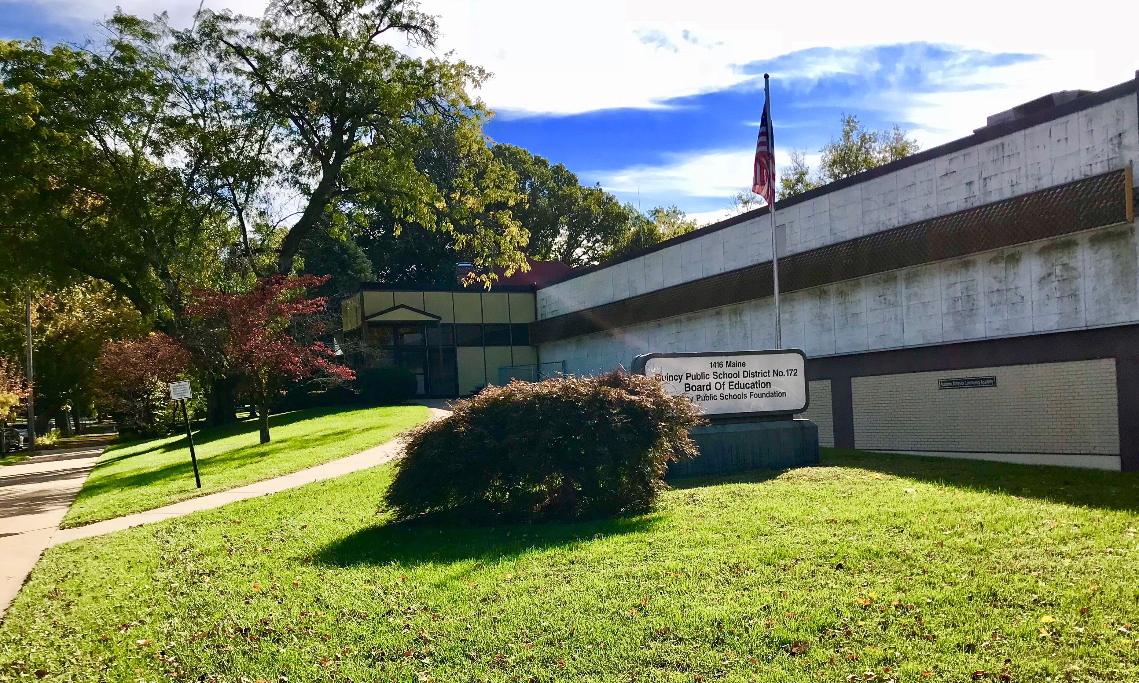 Exterior photo of the Quincy Public Schools District #172 Board of Education Office.